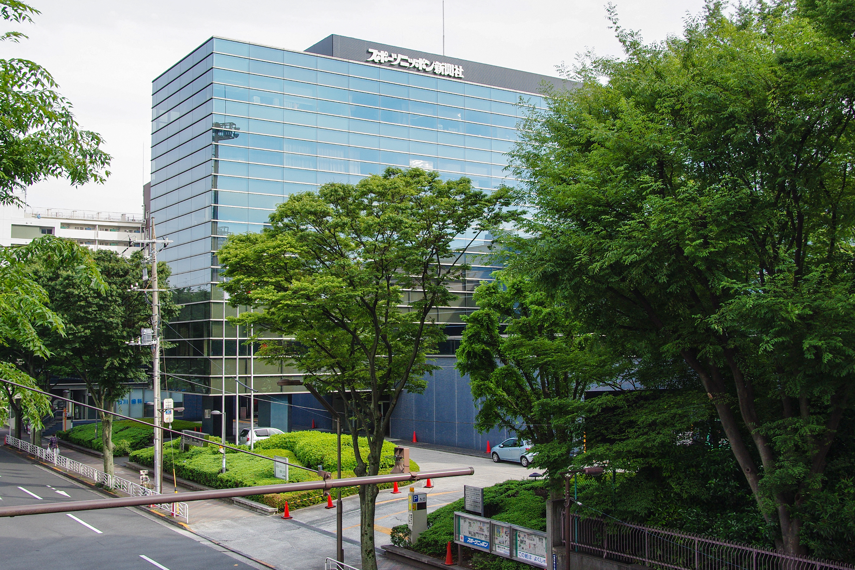 Photograph of S-T Building, the headquarters of Sports Nippon Newspapers Company, Tonichi Printing Company and Tokyo Sports Press Company, in Kyoto, Tokyo, Japan.